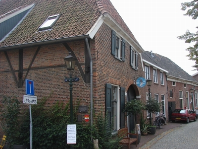 "Borgmanshuis" Monumental house in Bredevoort, Netherlands